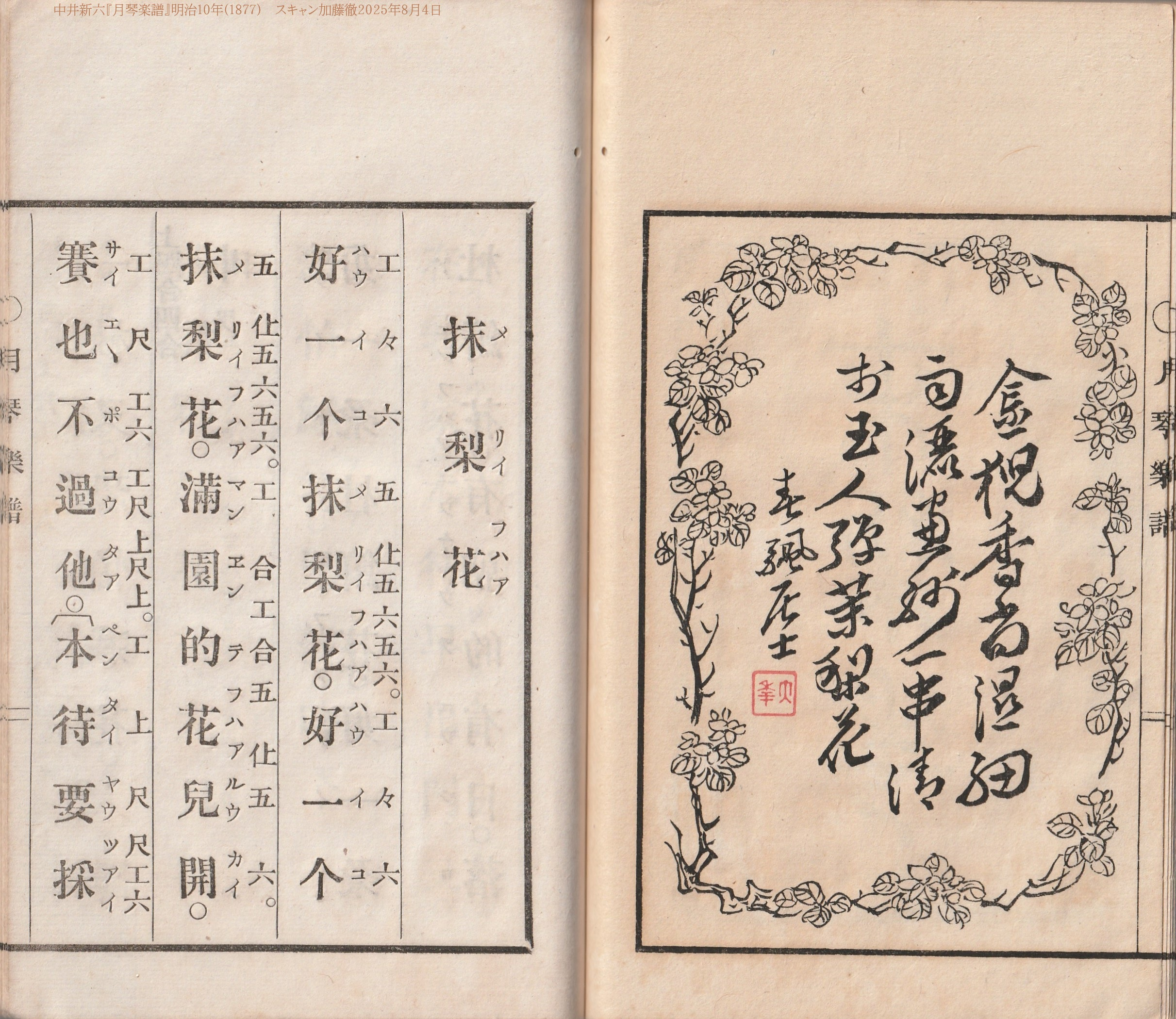 The title of this book is "月琴楽譜" (Gekkin Gakufu),An old music book of Chinese popular songs.